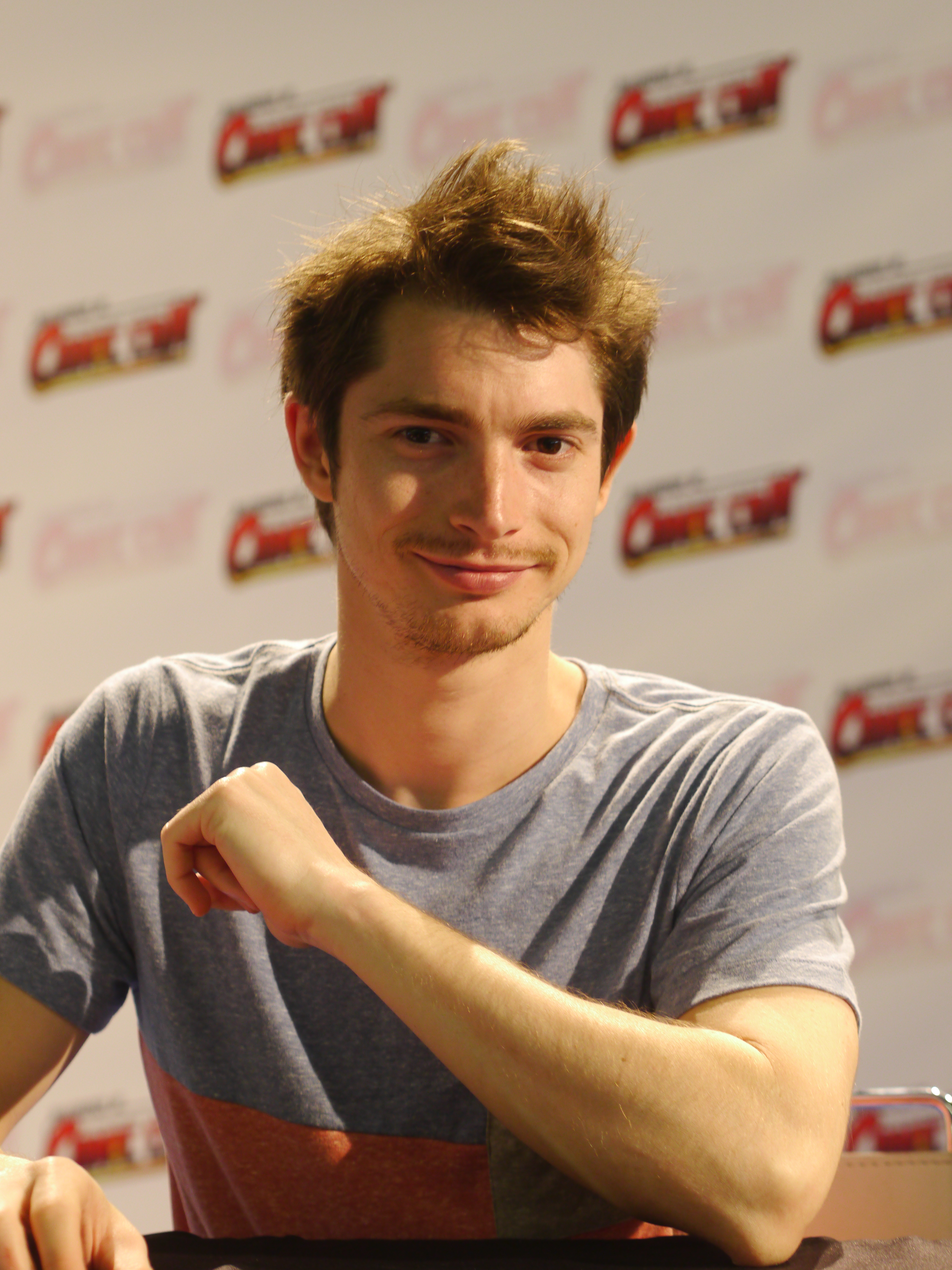 Japan Expo Festival, 14th impact